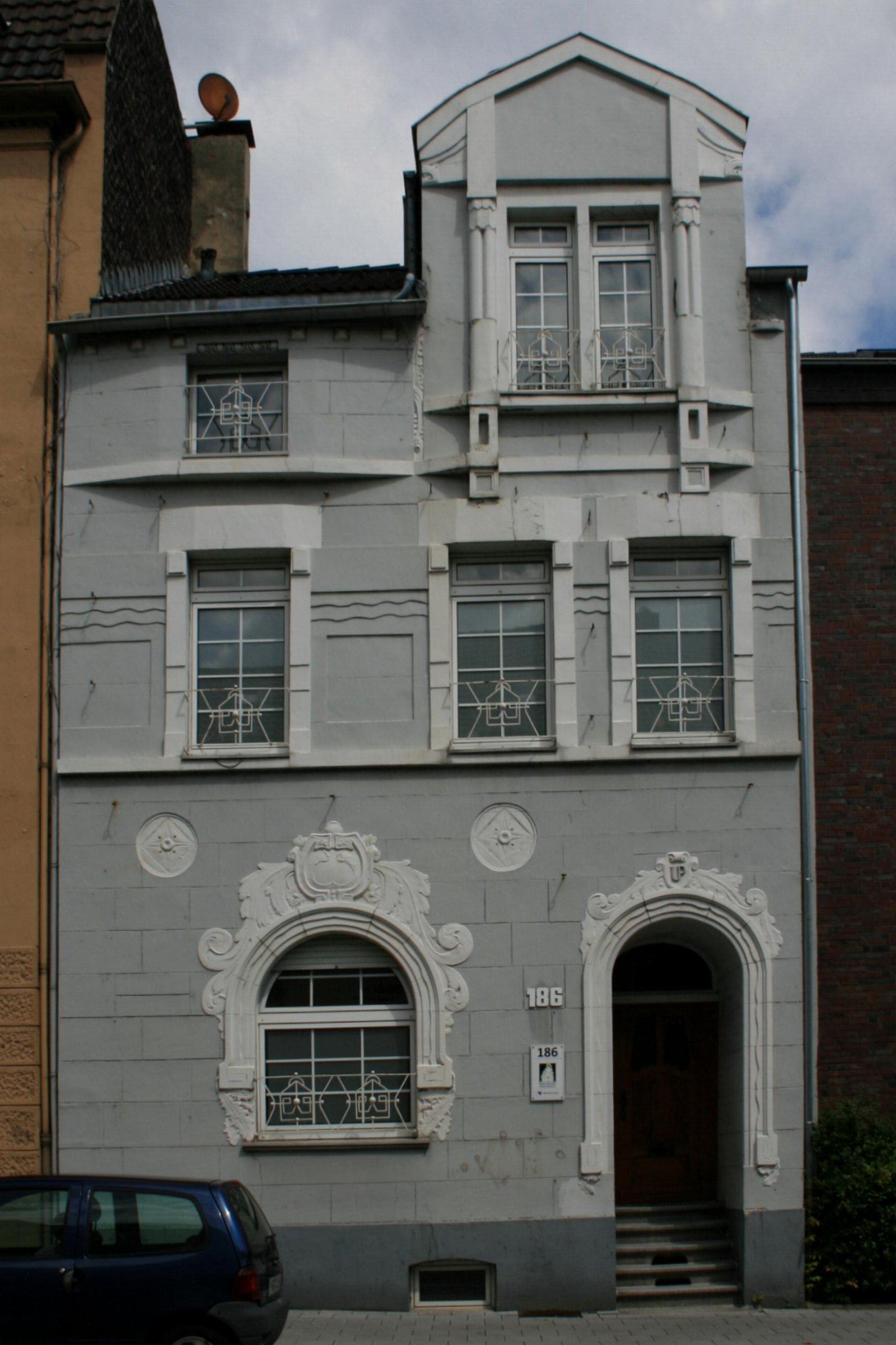 Cultural heritage monument No. L 011 in Mönchengladbach